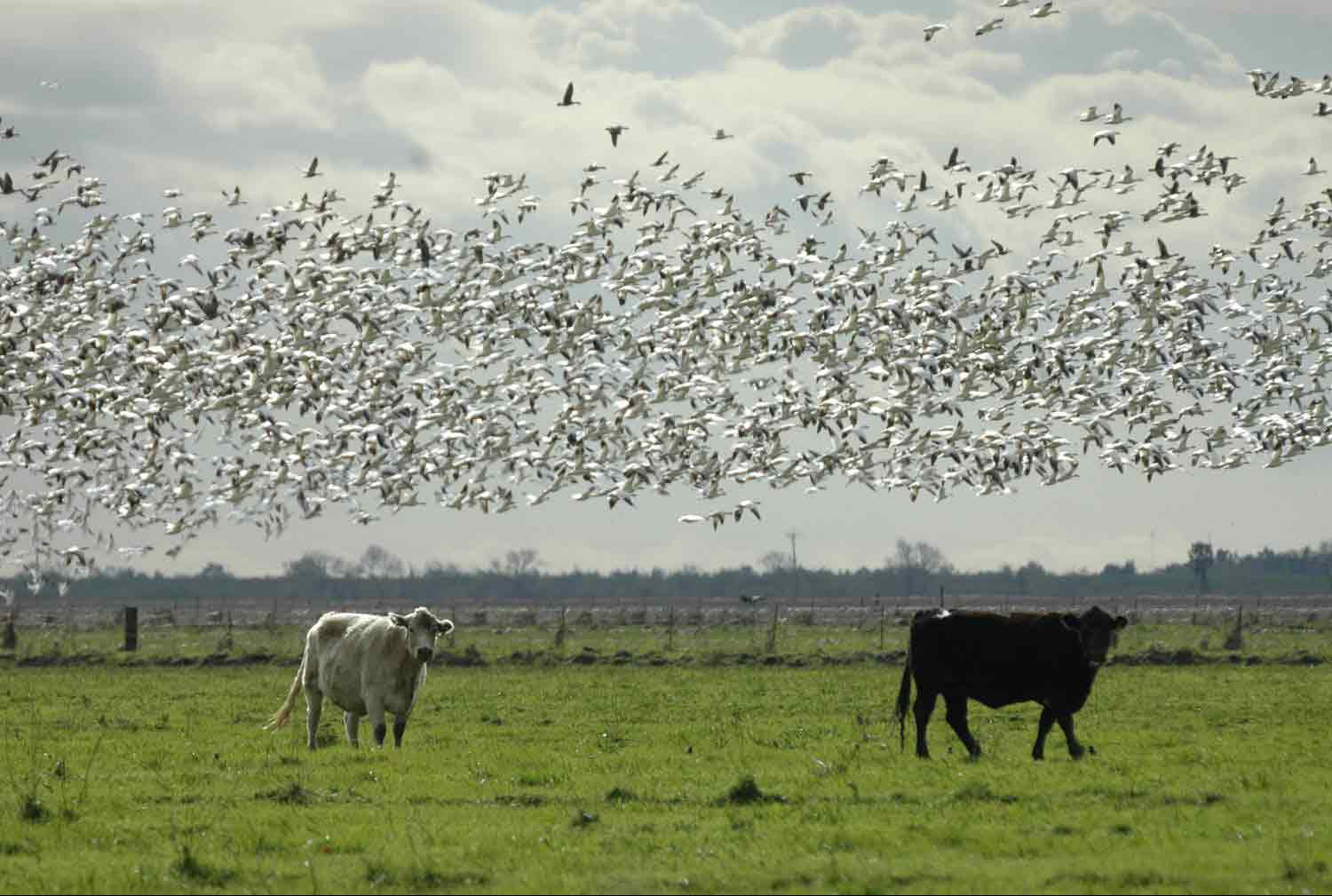 Large numbers of snow geese on the Tule Ranch.